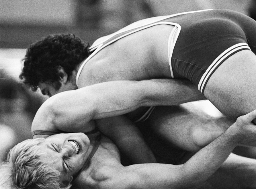 “Wrestlers Slavcho Chervenkov and Julius Strnisko during their match”. A men's Freestyle Wrestling 100 kg match at the 1980 Summer Olympics. Silver medal winner Slavcho Chervenkov of Bulgaria (up) and bronze medal winner Julius Strnisko of Czechoslovakia. XXII Summer Olympics. CSKA Sports Complex in Moscow.